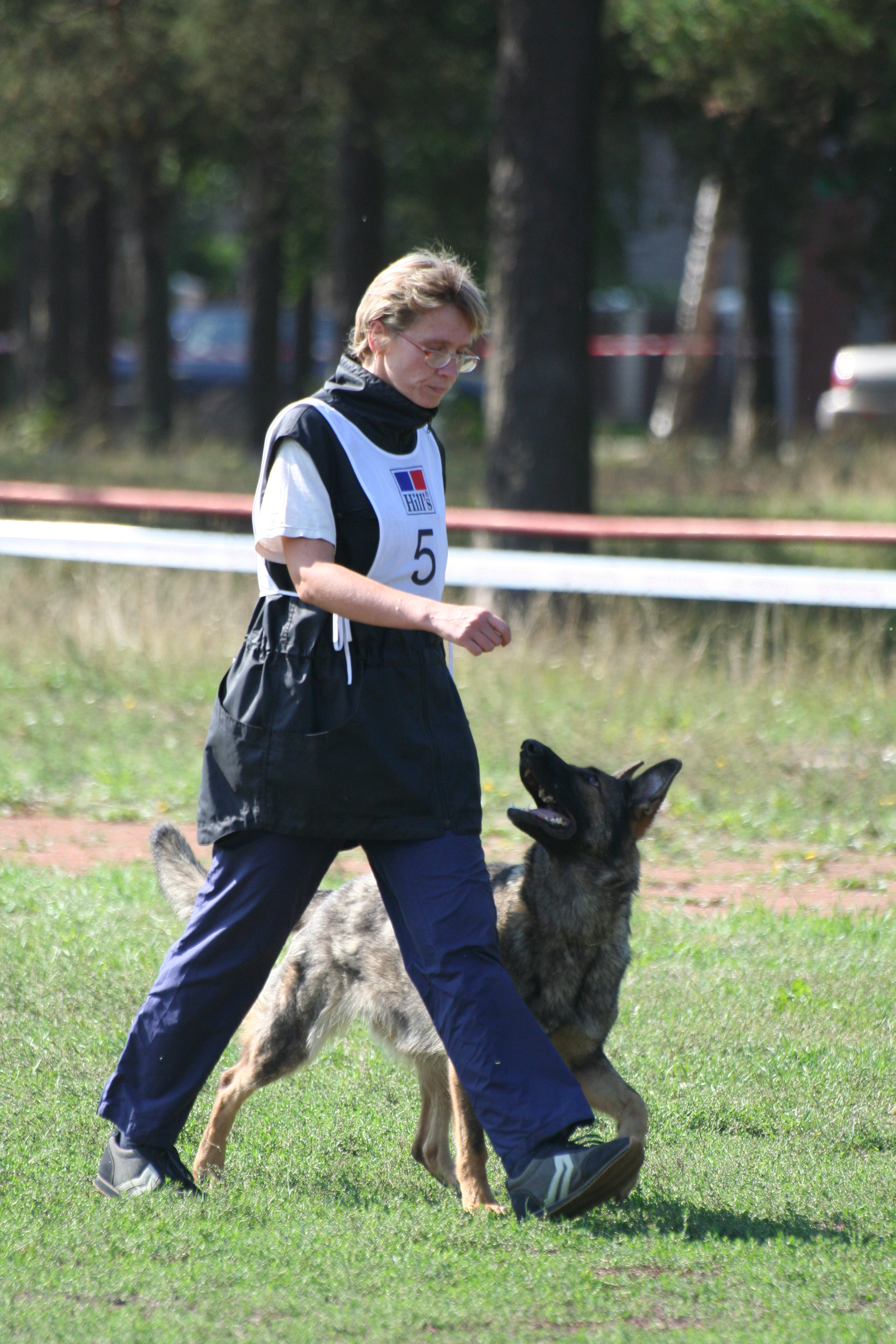 Original text: Vilve Roosioks.